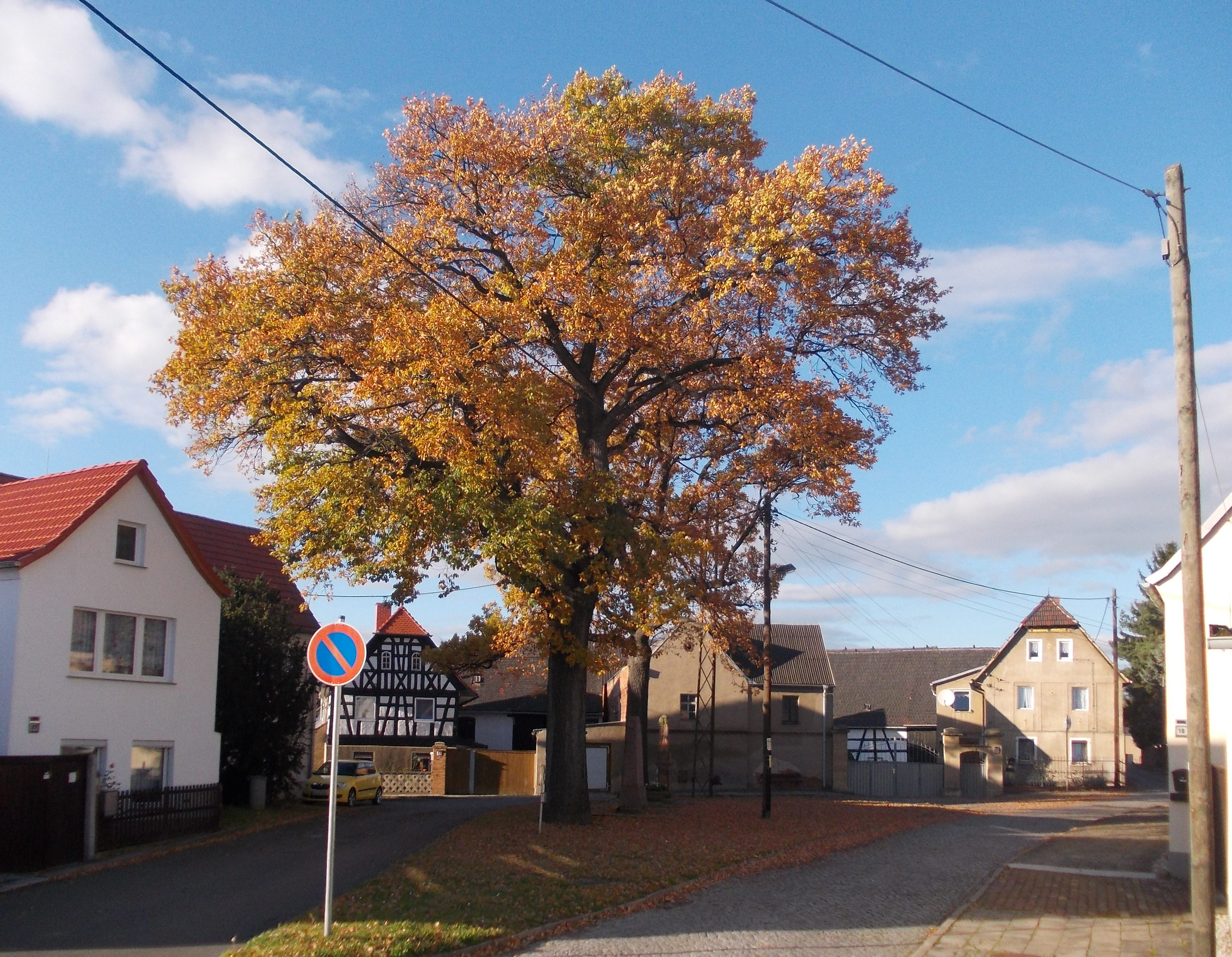 Village square in Minkwitz (Elsteraue, district: Burgenlandkreis, Saxony-Anhalt)